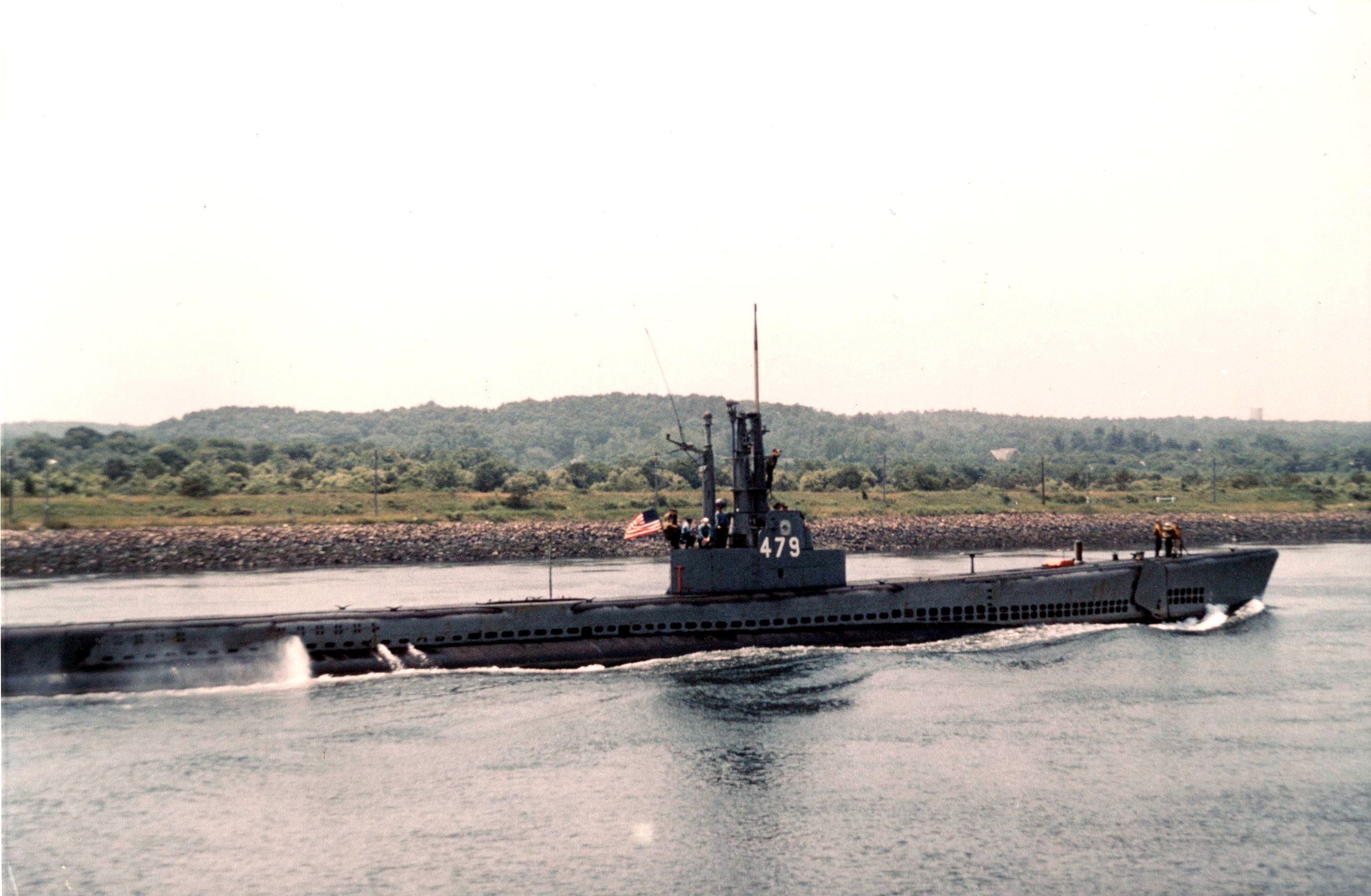 The U.S. Navy submarine USS Diablo (SS-479) passing through Cape Cod canal on the surface, likely after her launch in December of 1944.